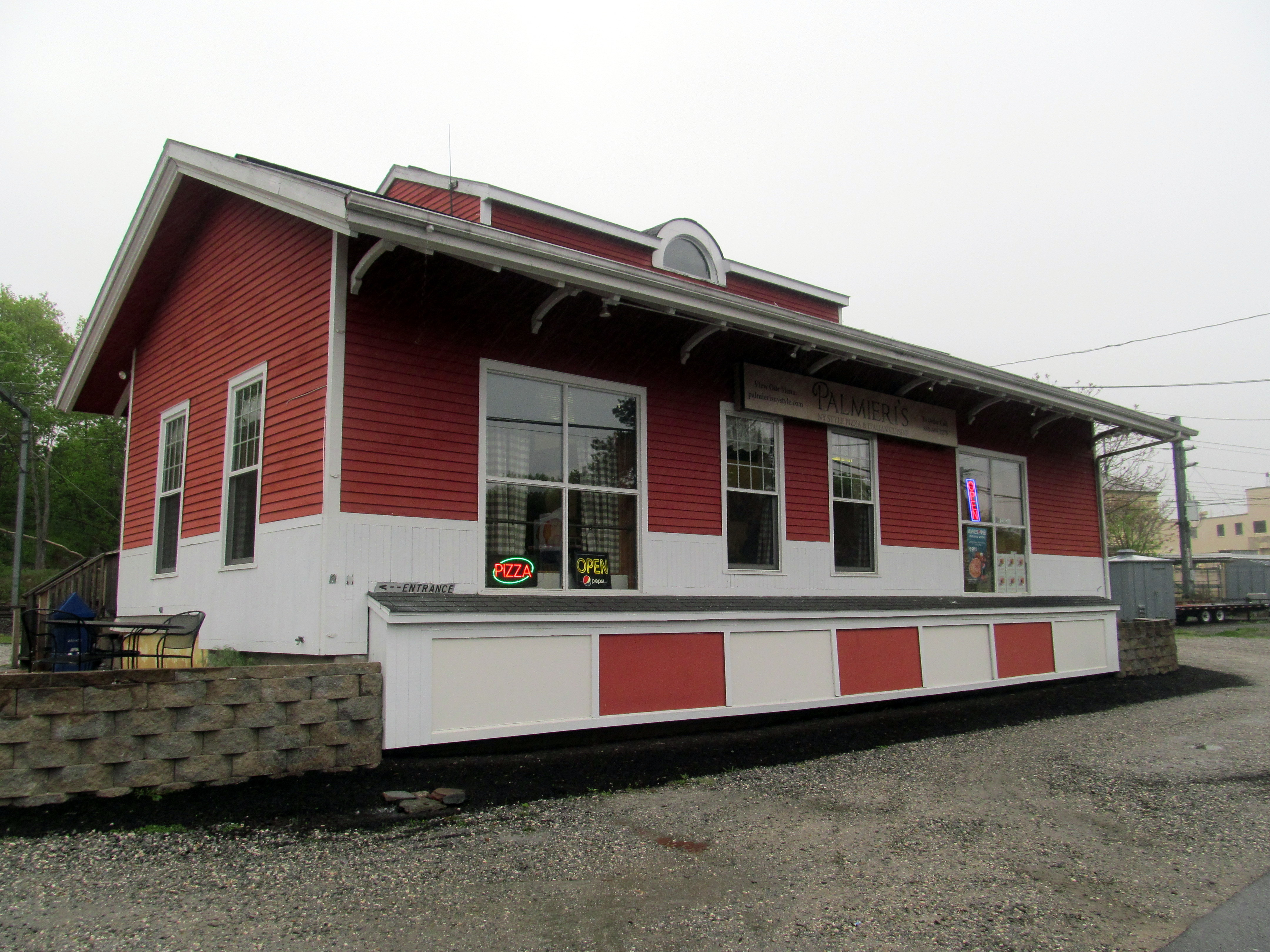 Front view of the 1852-built Clinton station, now a restaurant